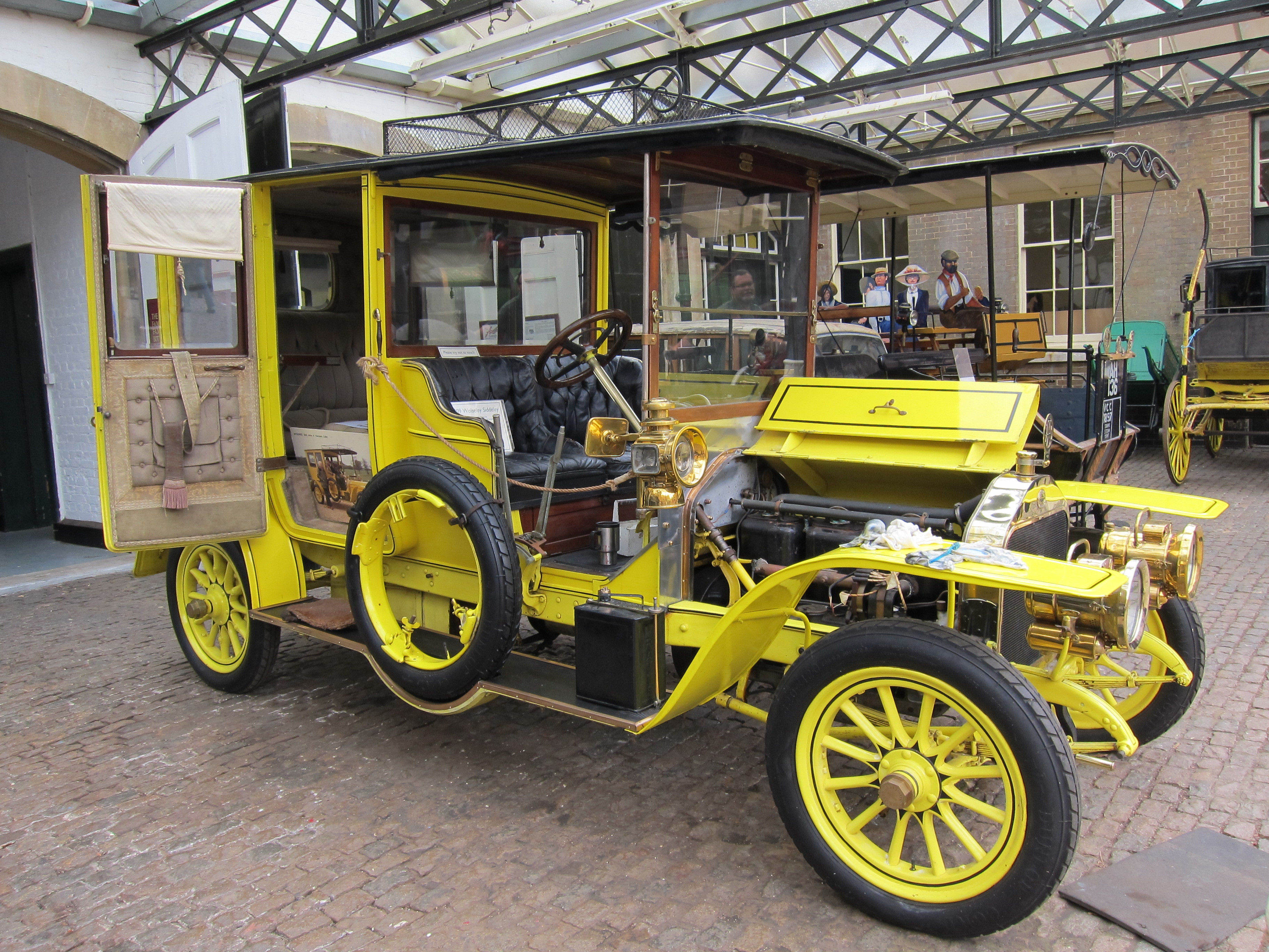 1909 Wolseley-Siddeley 40-50 hp 6-cylinder limousine, Holkham Hall Norfolk body by Howes & Son, Norwich bought 5 June 1909 by 3rd Earl of Leicester multiple disc clutch, Bosch dual ignition system, petrol to carburettor by air pressure, air pump on motor